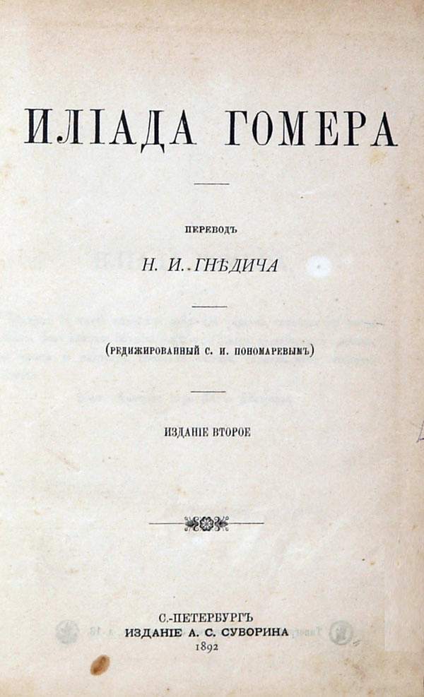 Гомер "Илиада" (перевод Гнедича, издание второе, 1892)